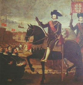 Portrait of Gaspar Pérez de Guzmán y Sandoval (1602-1664), 9th Duke of Medina Sidonia.